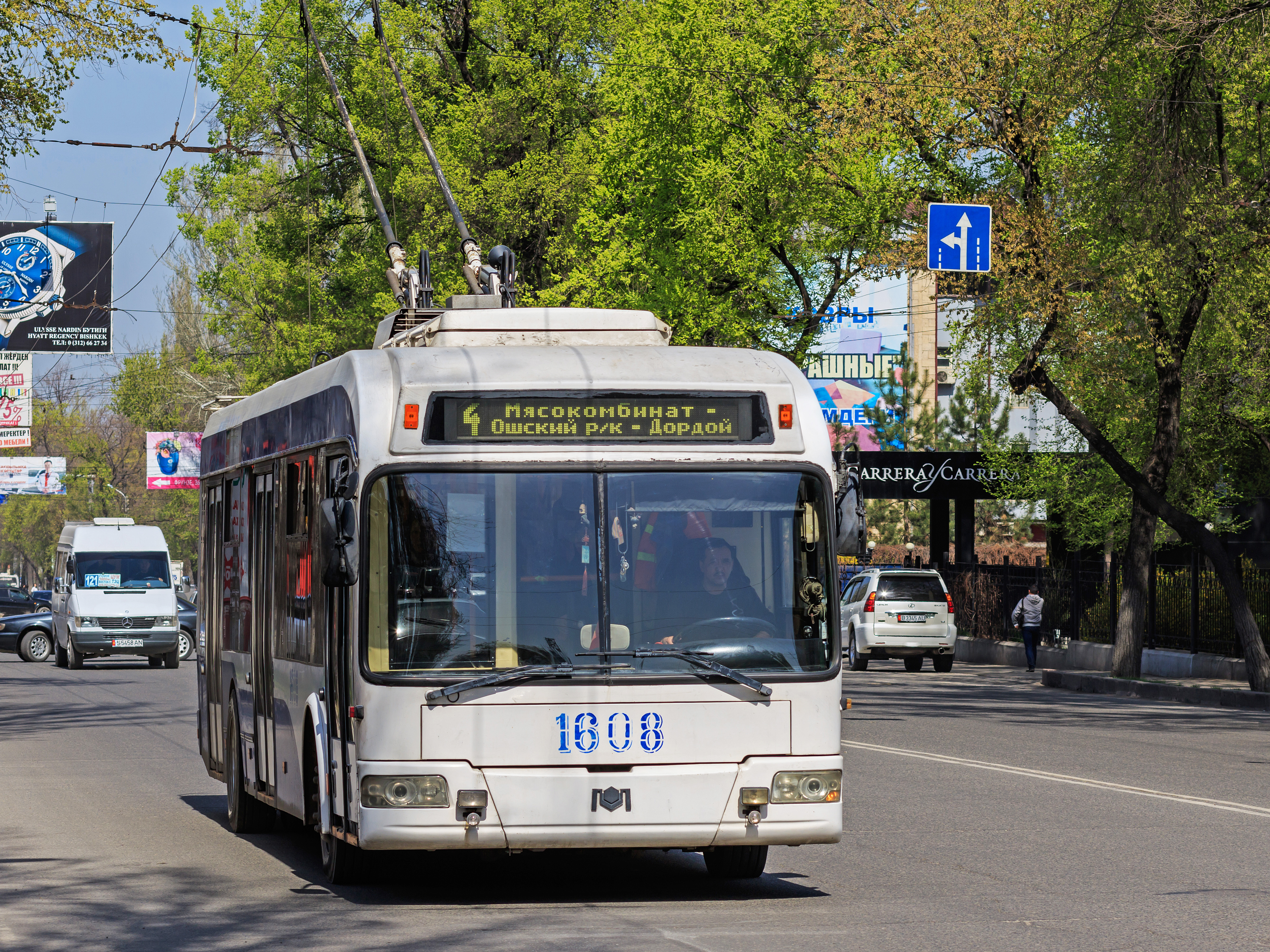 Trolleybus at Yusup Abdrahmanov Street in Bishkek, Kyrgyzstan